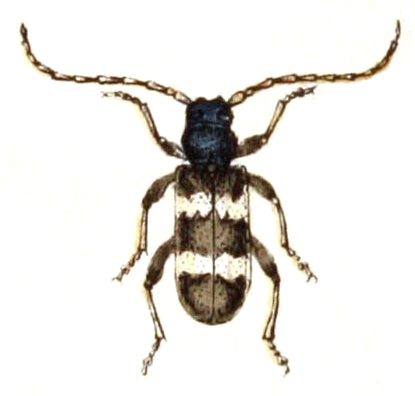 Callidium undatum Semanotus undatus (Linnaeus, 1758), from Calwer's Käferbuch, Table 36, Picture 8. Taxonomy was updated to 2008, using mostly the sites Fauna Europaea and BioLib. Please contact Sarefo if the determination is wrong!